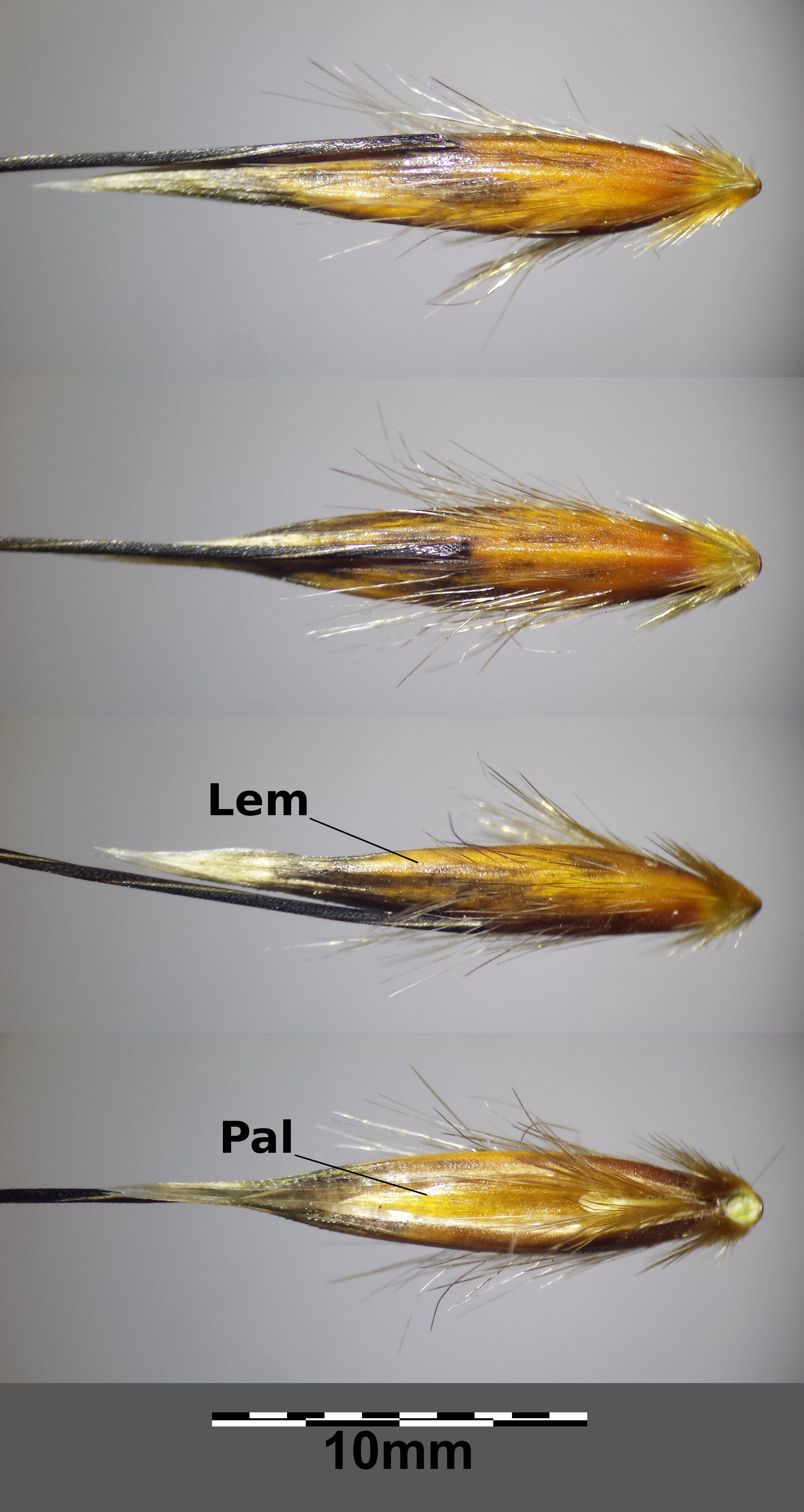 Caryopsis with hairy lemma (Lem) and palea (Pal) Taxonym: Avena fatua ss Fischer et al. EfÖLS 2008 ISBN 978-3-85474-187-9 Location: next to Groß-Jedlersdorf cemetery, Vienna-Floridsdorf - ca. 160 m a.s.l. Habitat: border of a field